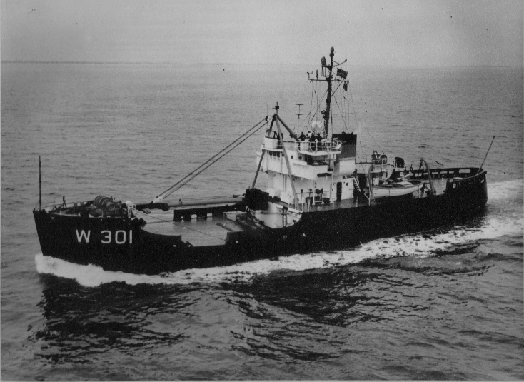 USGC Conifer WLB-301 Buoy tender Cactus class circa 1965 Home port Portsmouth, Virginia